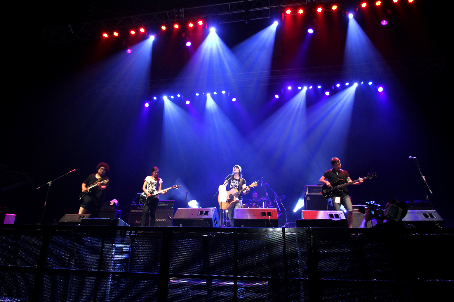 Australian band Fahrenheit 43 performing on-stage at Araneta Coliseum in November 2010.